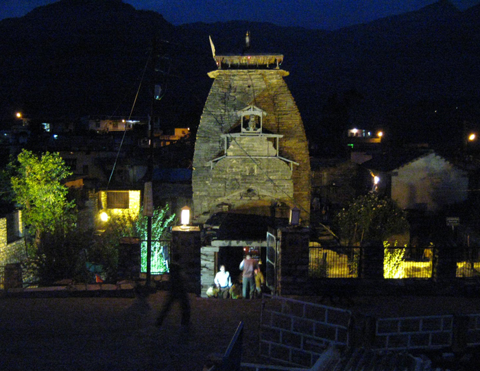 Gopi Nath Temple Gopeshwar Uttarakhand